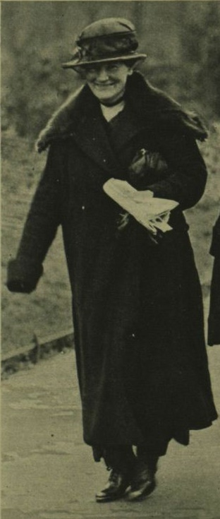 Mary MacSwiney, TD for Cork and future leader of Sinn Féin